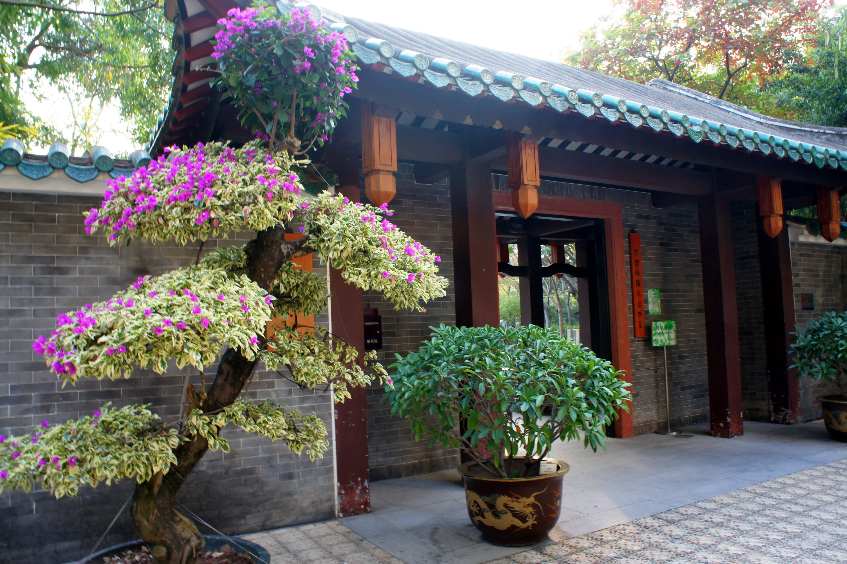 North Entrance. One of the ten scenic spot of the Lai Chi Kok Park, Lingnan Garden, Kowloon, Hong Kong.